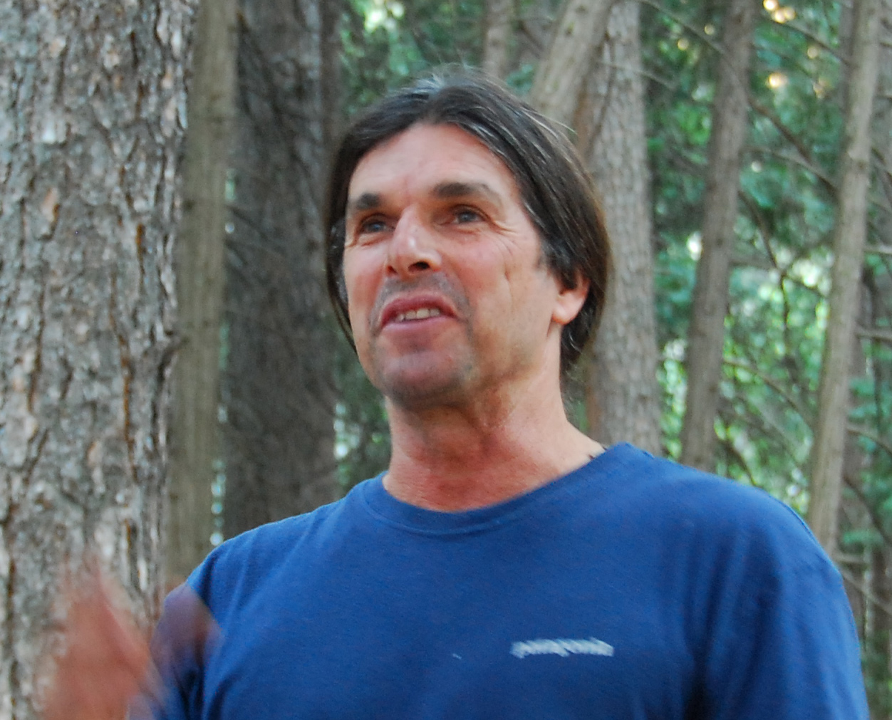 Ron Kauk talking with members of Yosemite Conservancy Lower River Amphitheater Project